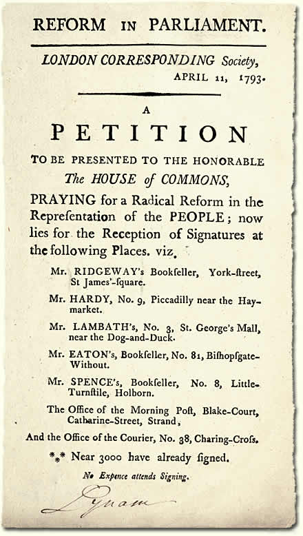 London: London Corresponding Society: Handbill advertising a petition to the House of Commons for Parliamentary Reform